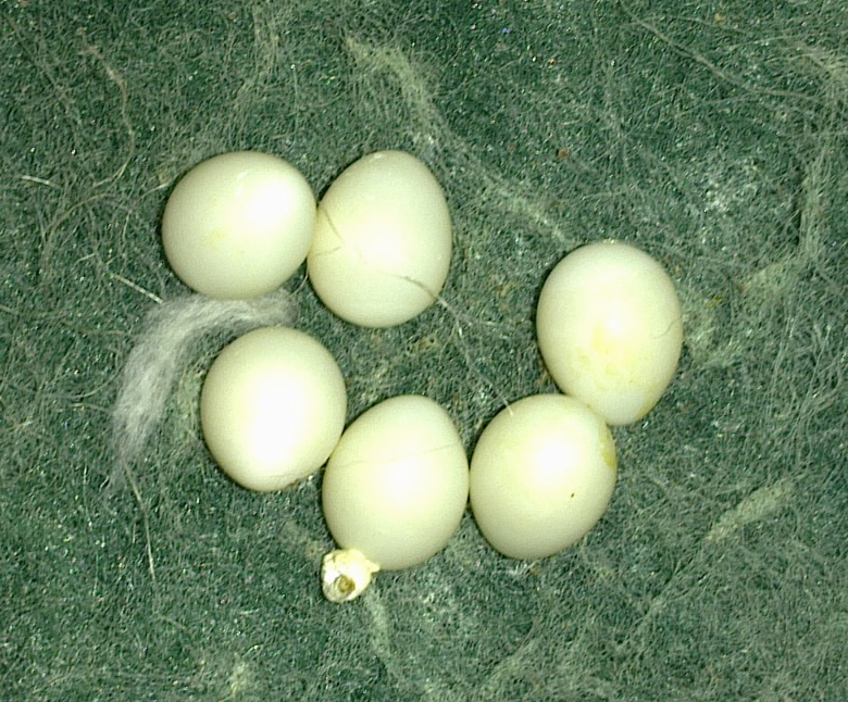 Eggs.